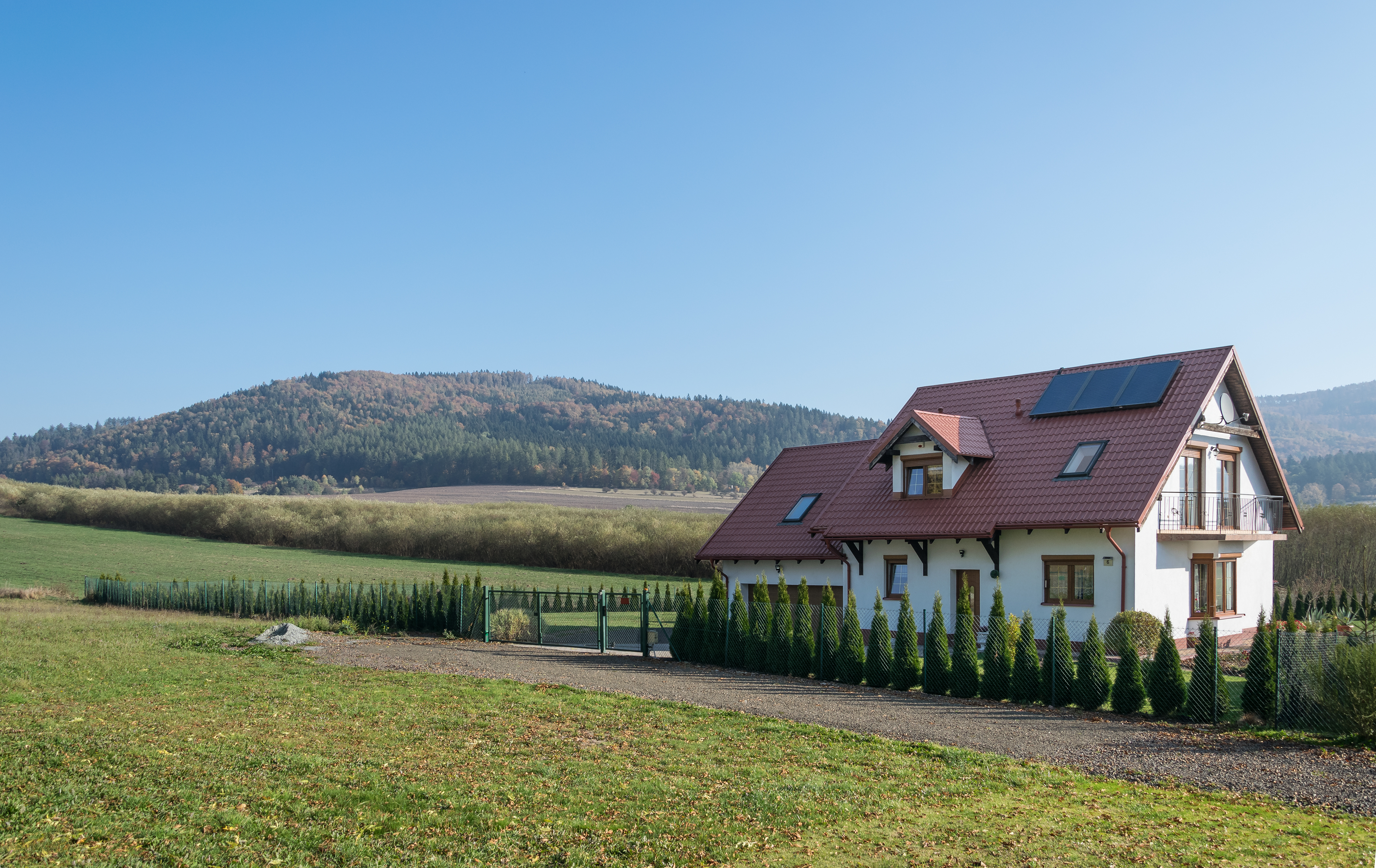 6 Hutnicza Street in Wolibórz